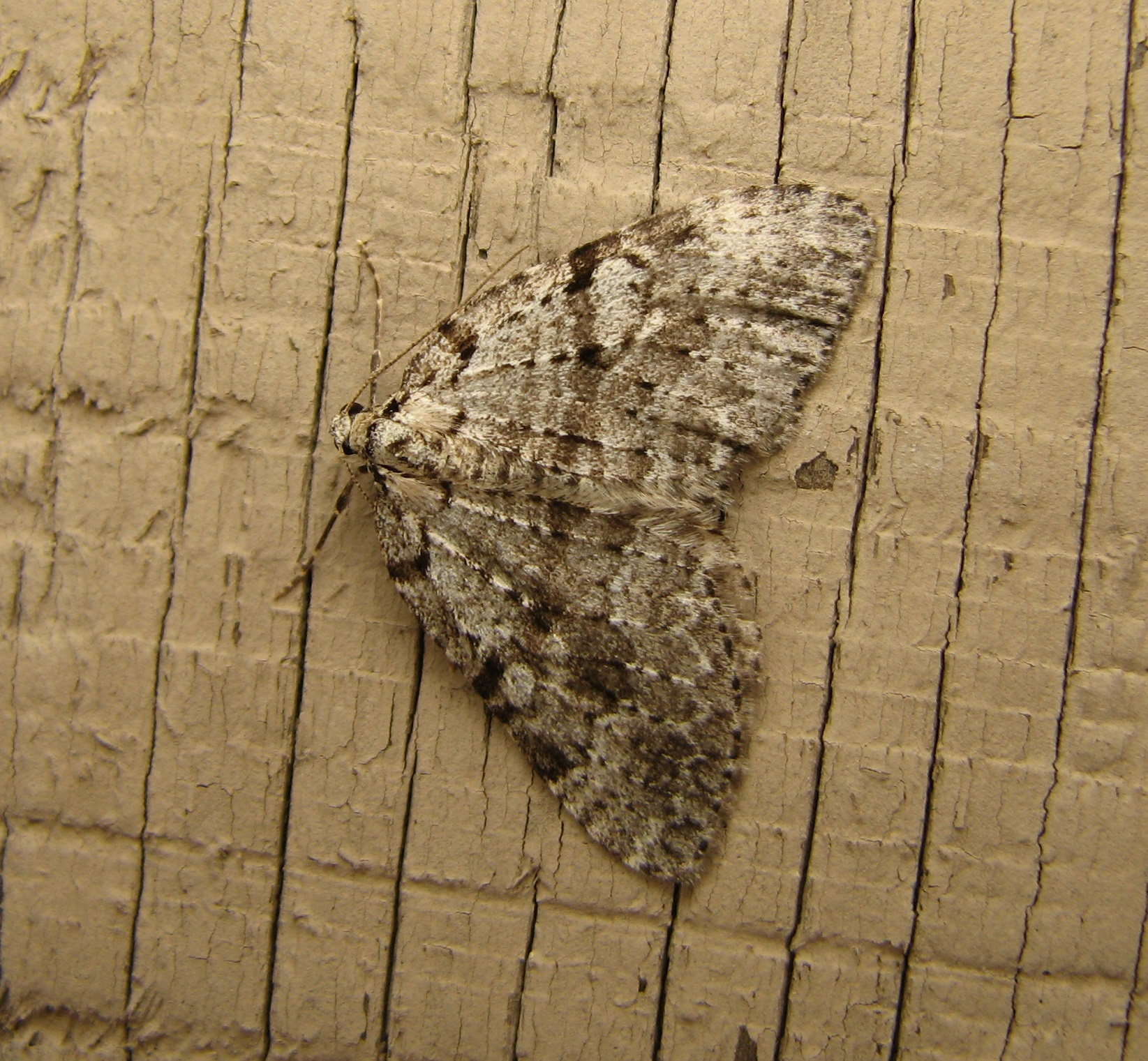 Geometrid moth Perizoma curvilinea (Hodges#7324). Camp Cascade, Marion County, Oregon, USA.